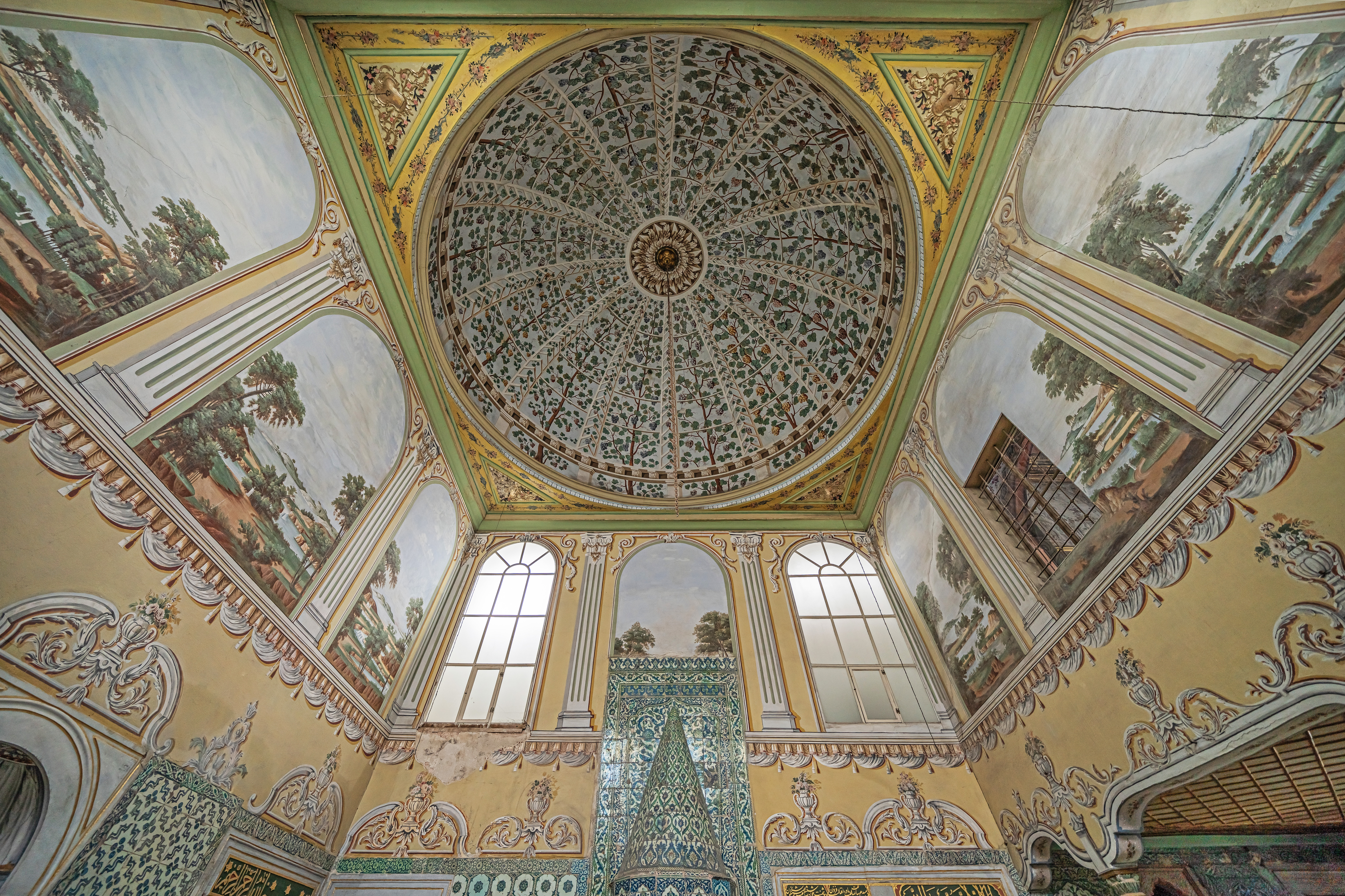 Queen Mother's Apartments in Harem of Topkapı Palace in Istanbul, Turkey